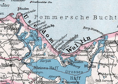 Detail from a map of Pomerania.